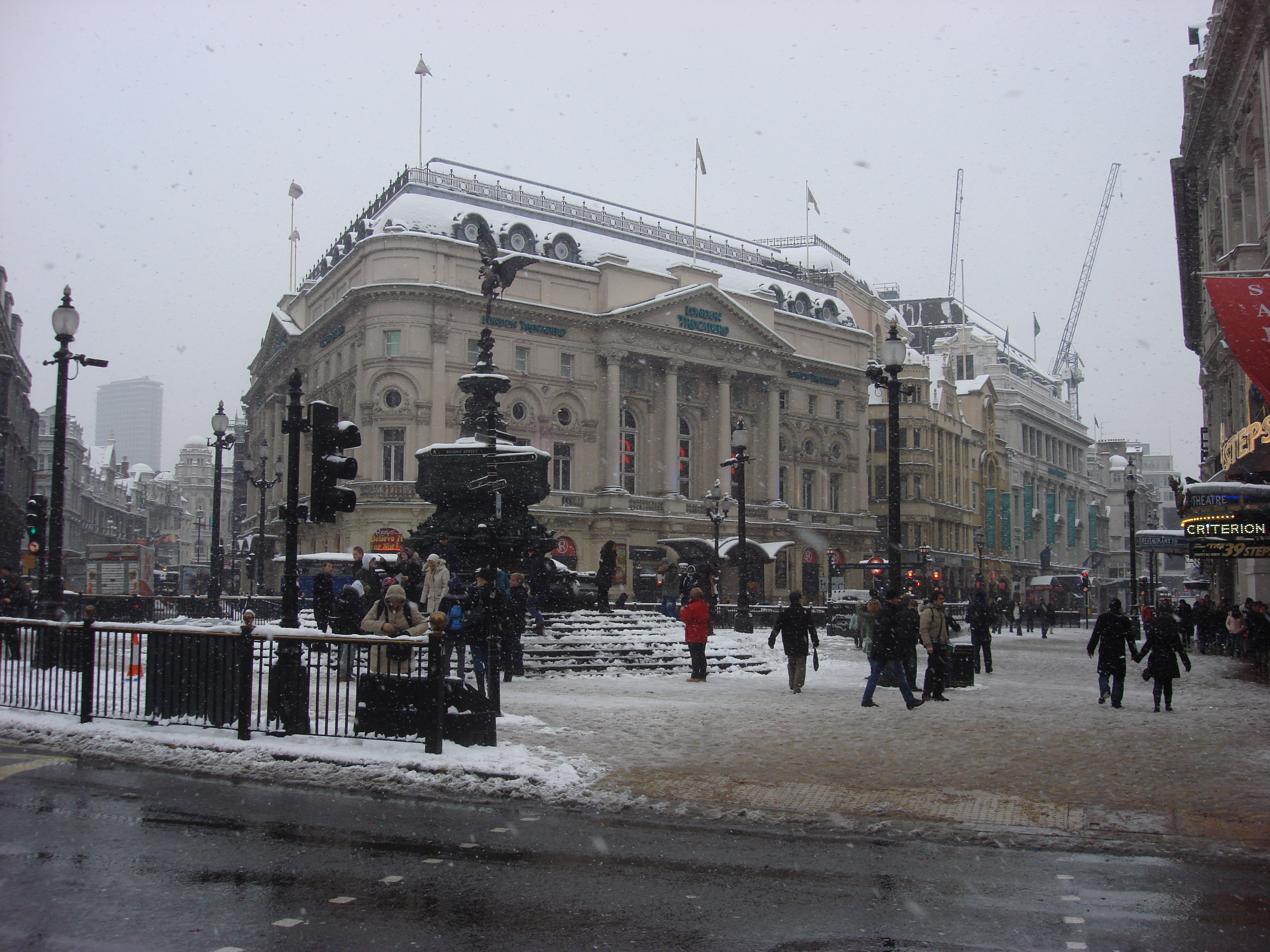 Piccadilly Circus in snow, 2 February 2009